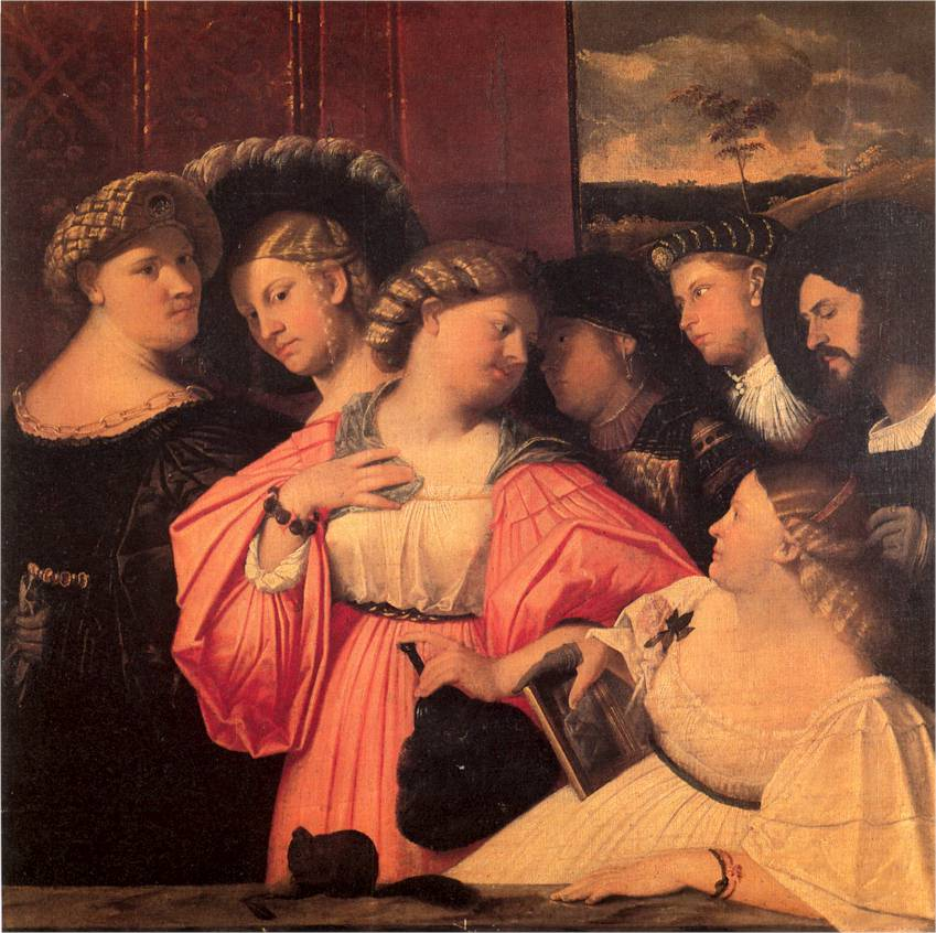 Giovanni Cariani, circa 1519: Four Courtesans and Three Gentlemen Private Collection